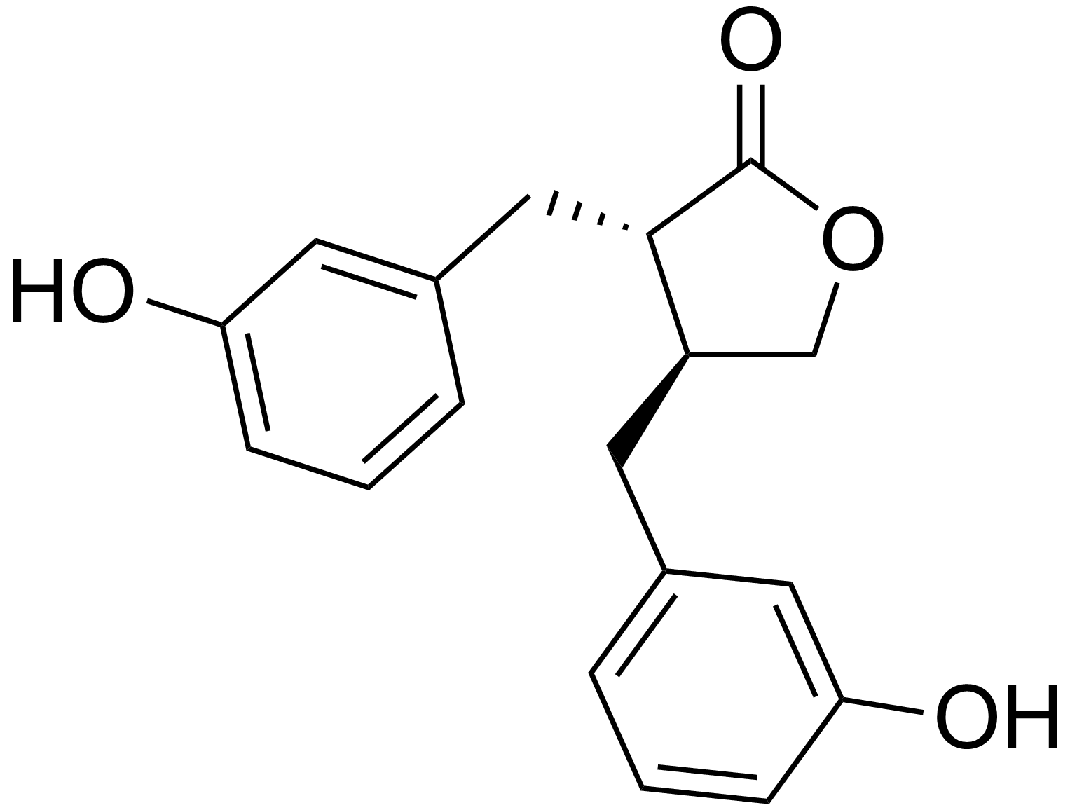 Chemical structure of enterolactone